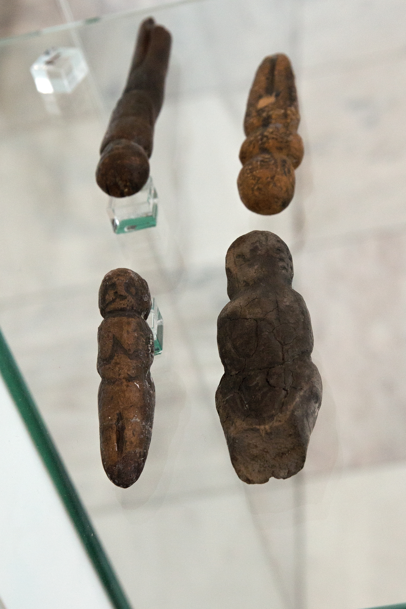 Upper Paleolithic art: (7) Figurines from Malta in Siberia. Probably replicas. Anthropos Pavilon, Brno.